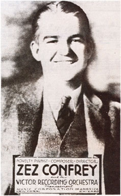 Zez Confrey Portrait